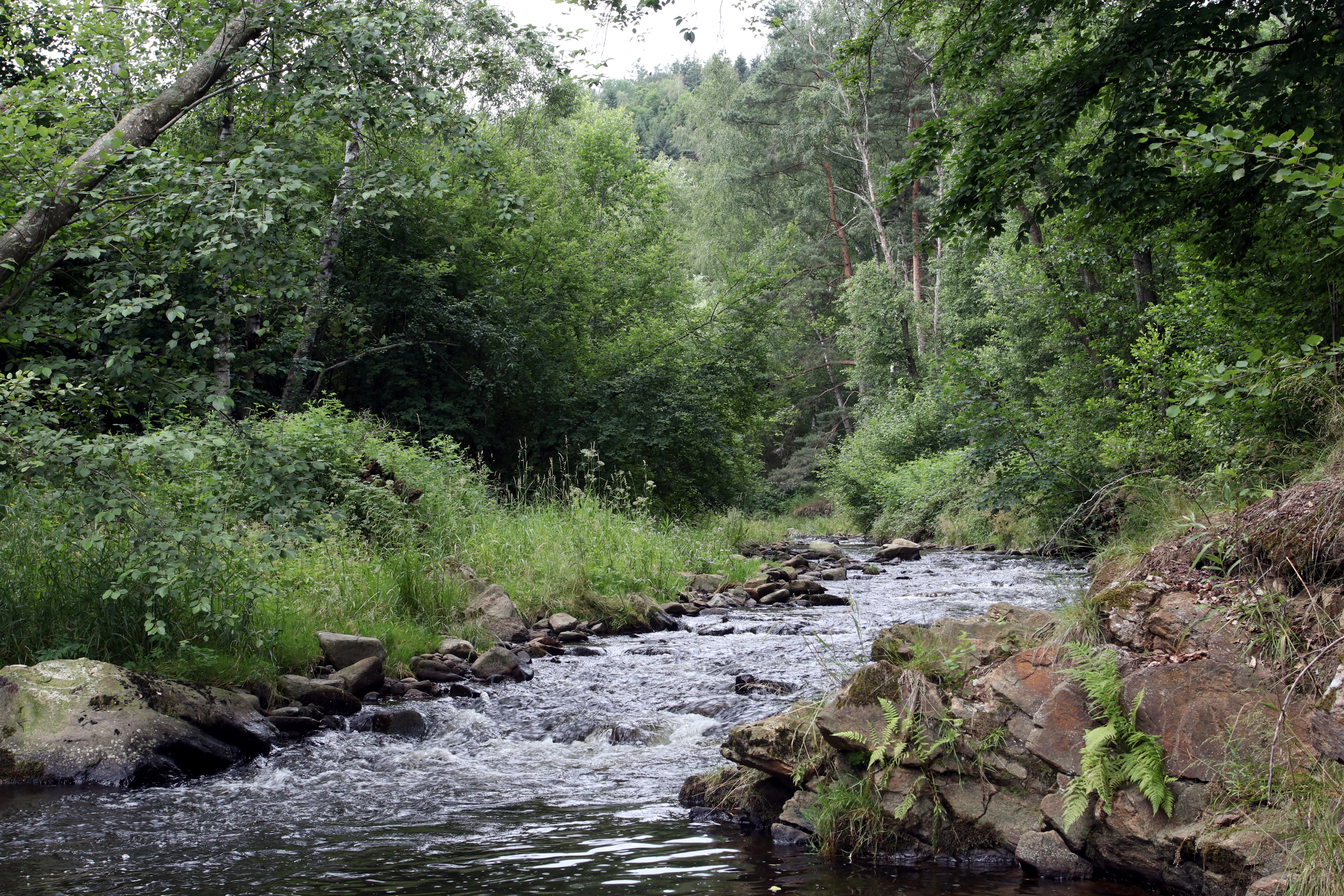 Blanice River, part of Otava tributary, in the nature reserve Na soutoku near Záblatí village, Prachatice District, Czech Republic